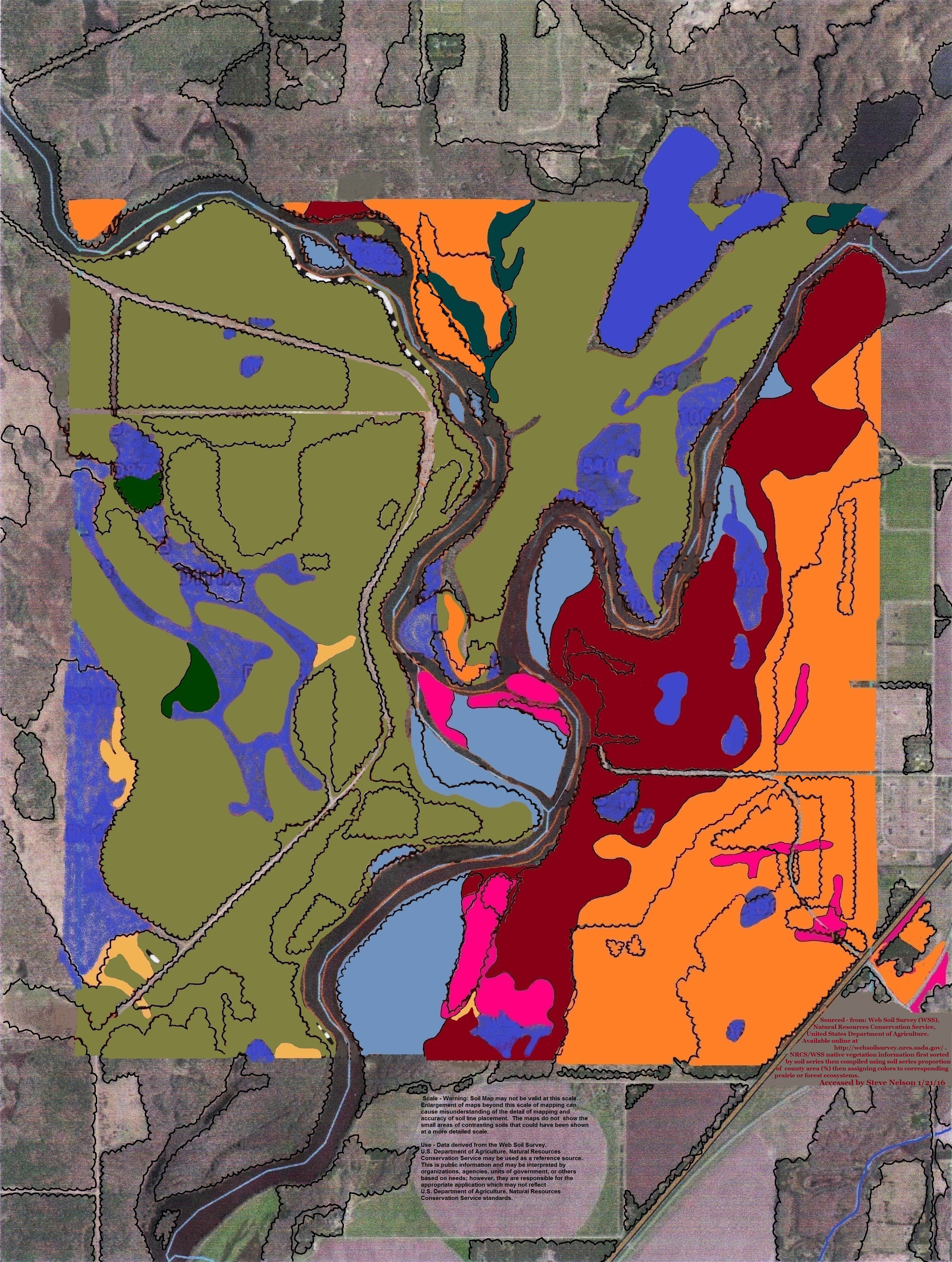 Colored map shows native vegetation based on soils in the Crow Wing State Park neighborhood in Crow Wing County, and Morrison and Cass Counties, Minnesota USA.